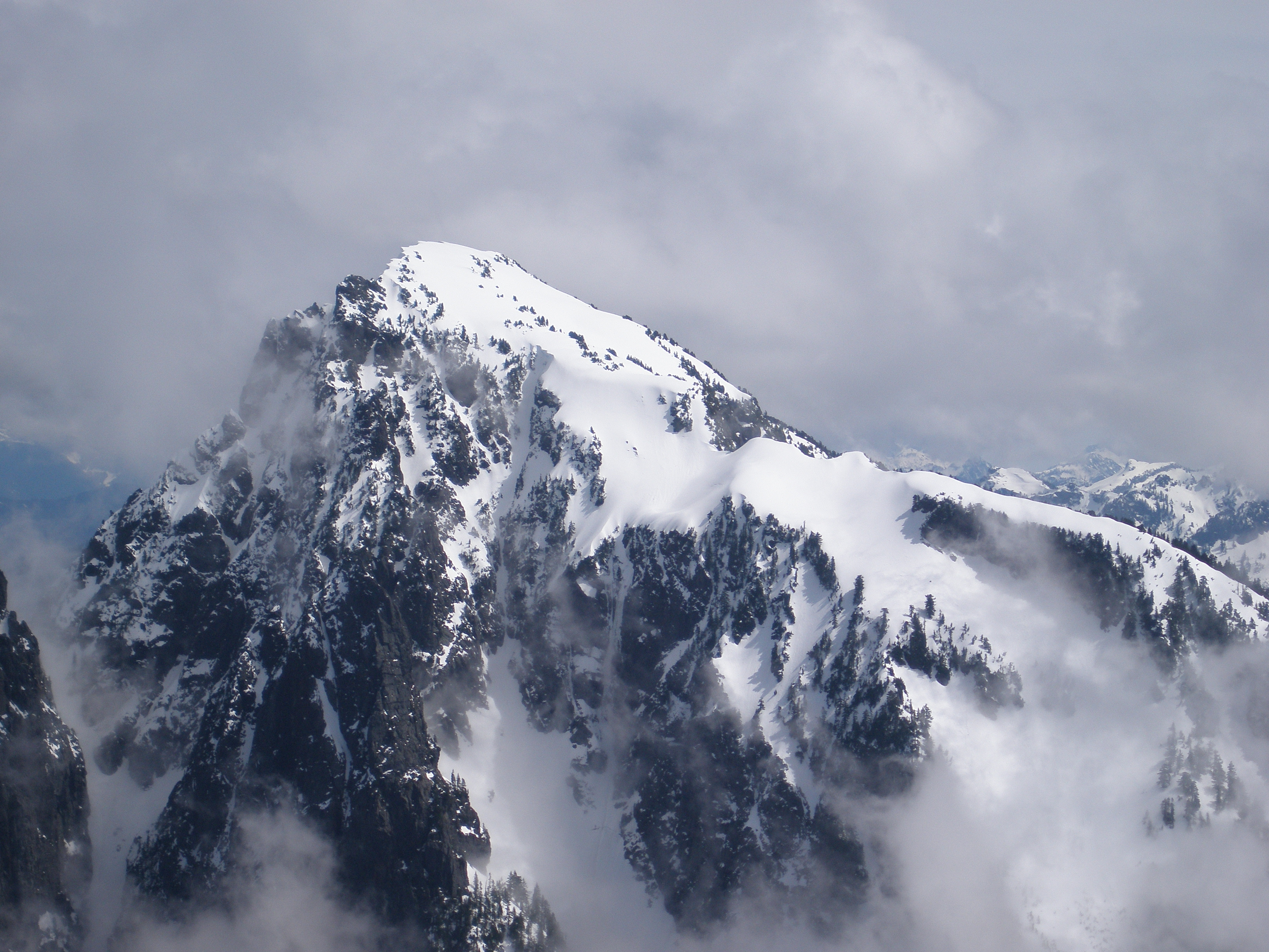 Main peak of Mt. Index from Mt. Persis summit.